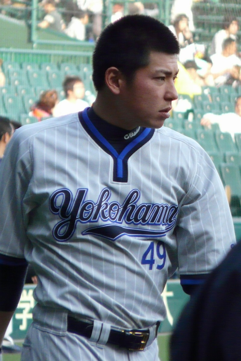 Toshio Saito, catcher of the Yokohama BayStars, at Hanshin Koshien Stadium